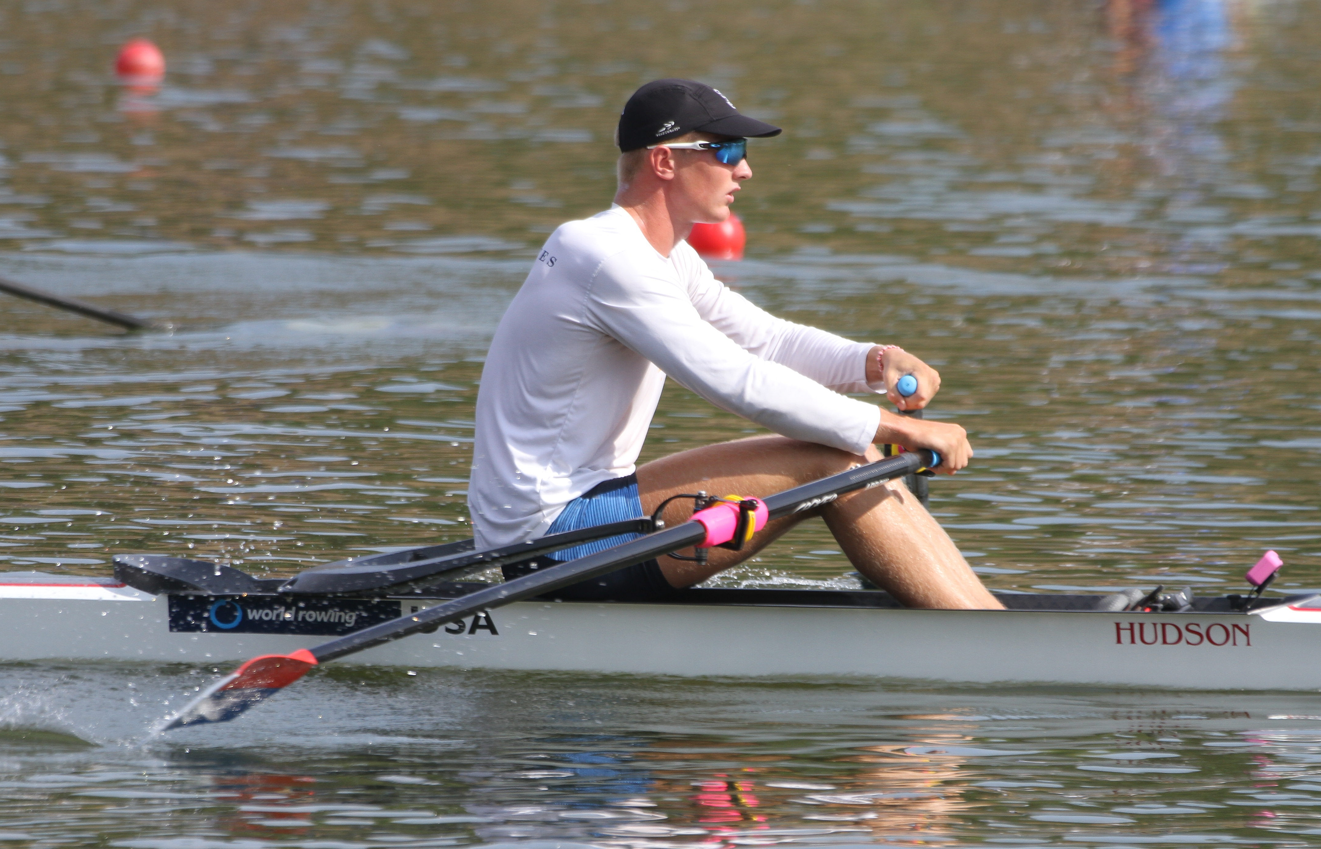 Junior Men's Single sculls competition (heat) on 8 August at the 2018 World Rowing Junior Championships in Račice u Štětí.